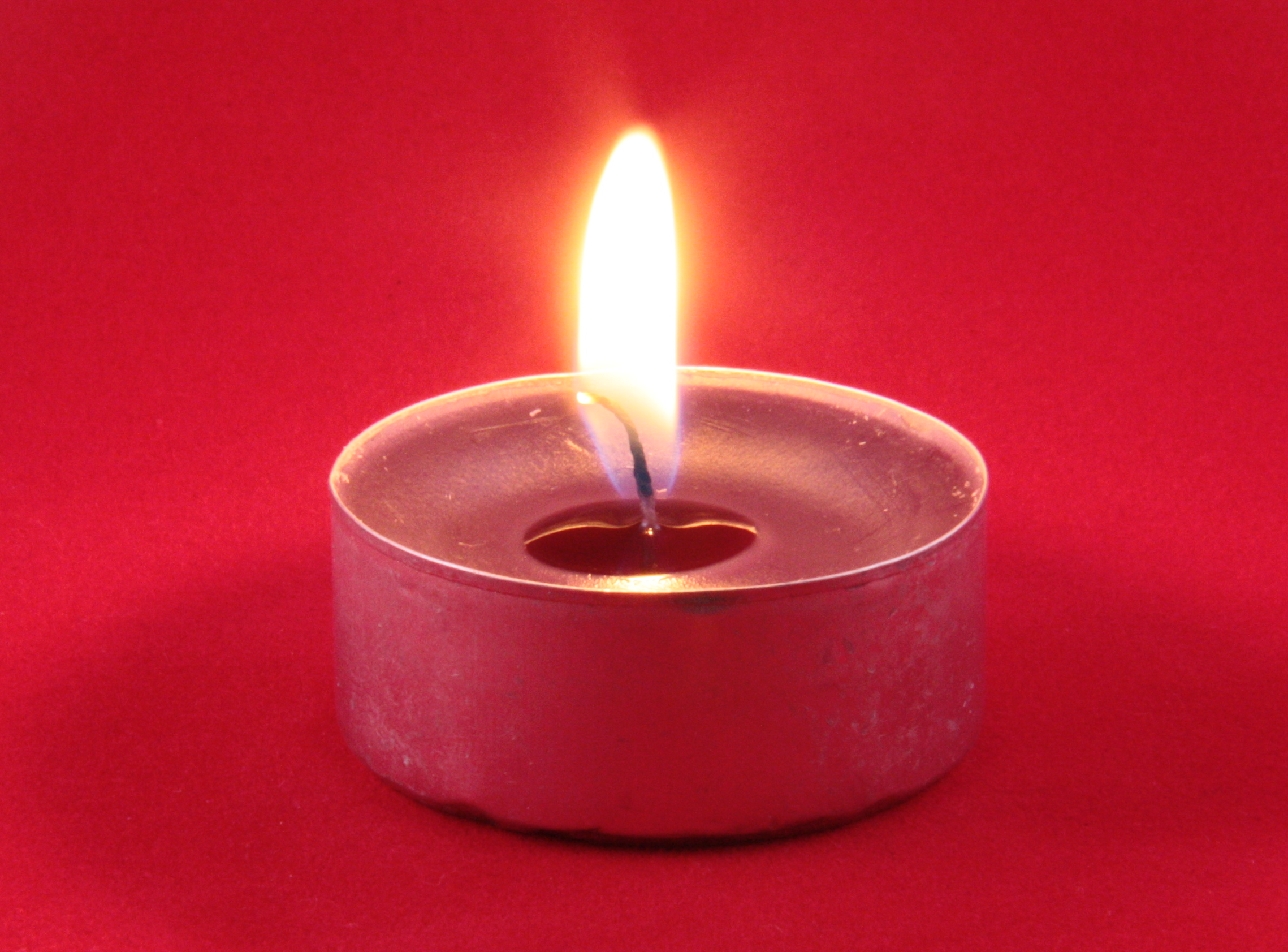 Tealights